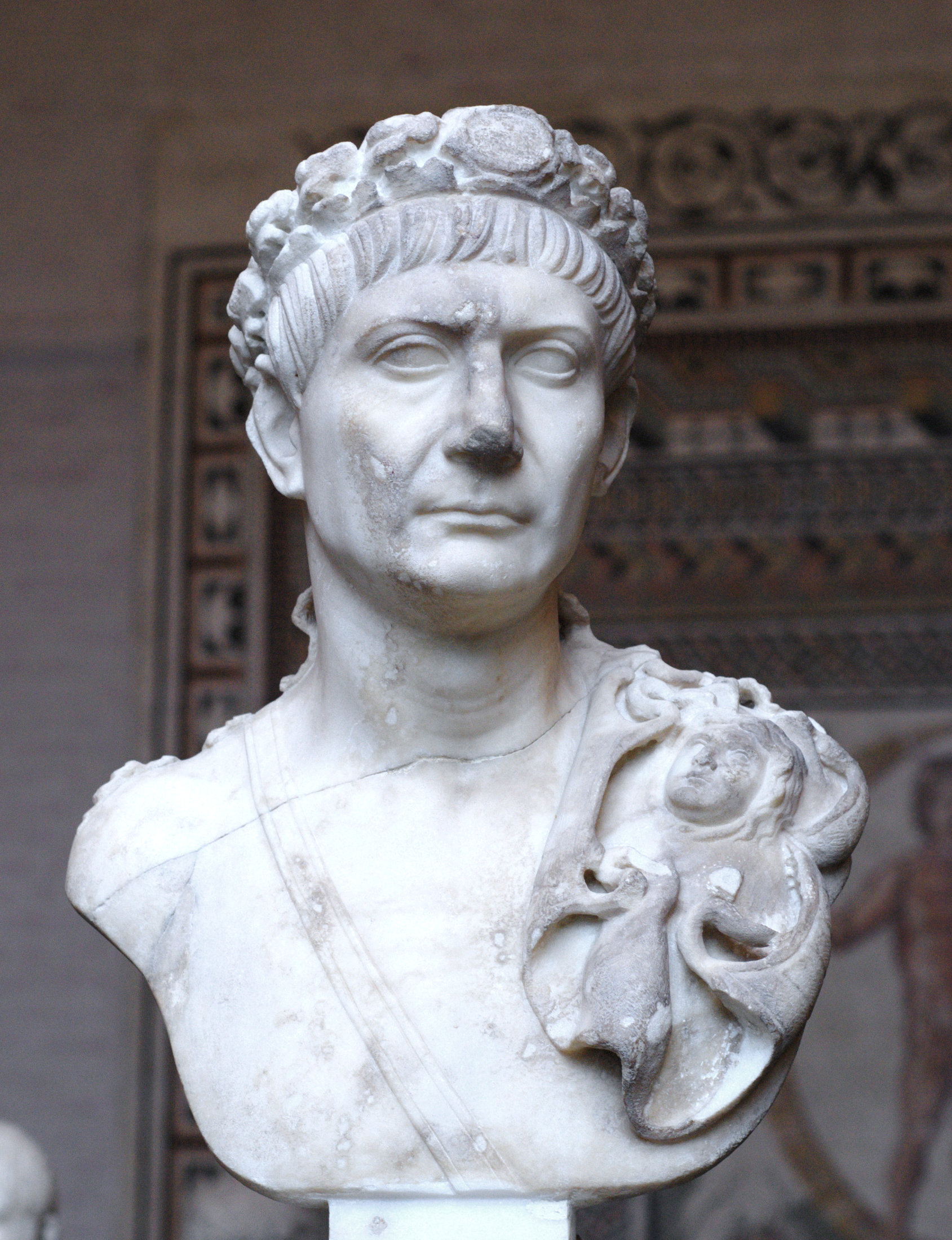 Bust of Trajan (reign 98–117 CE), with the Civic Crown, a sword belt and the aegis (attribut of Jupiter and symbol of divine power).